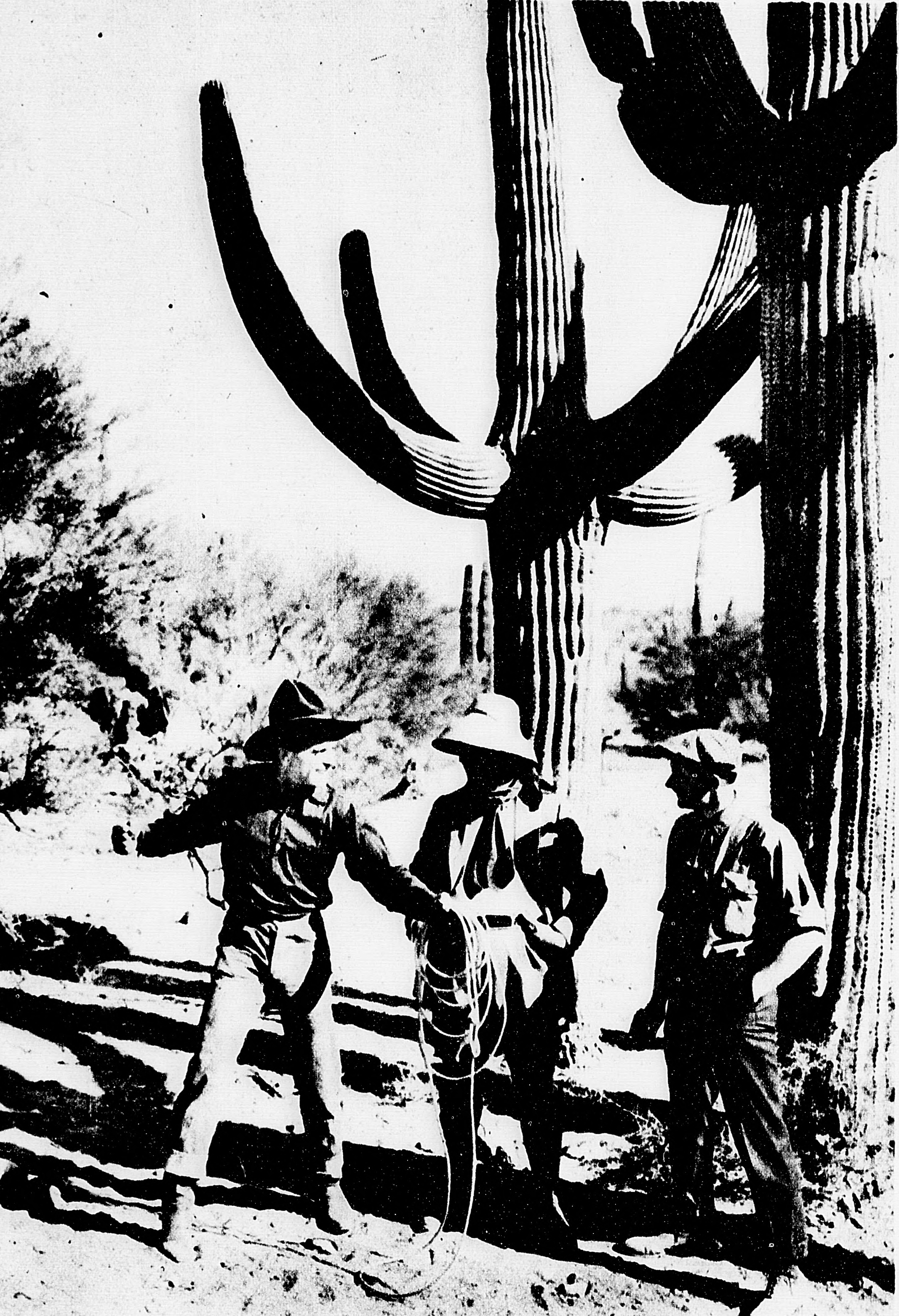 Headin' South is a 1918 American comedy film directed by Arthur Rosson with supervision from Allan Dwan and starring Douglas Fairbanks. This is a "on set" picture from a newspaper.Original caption: "Douglas Fairbanks and his directors Allen Dwan and Art Rosson, discussing a scene on the Mexican border for the next Fairbanks release Headin' South."